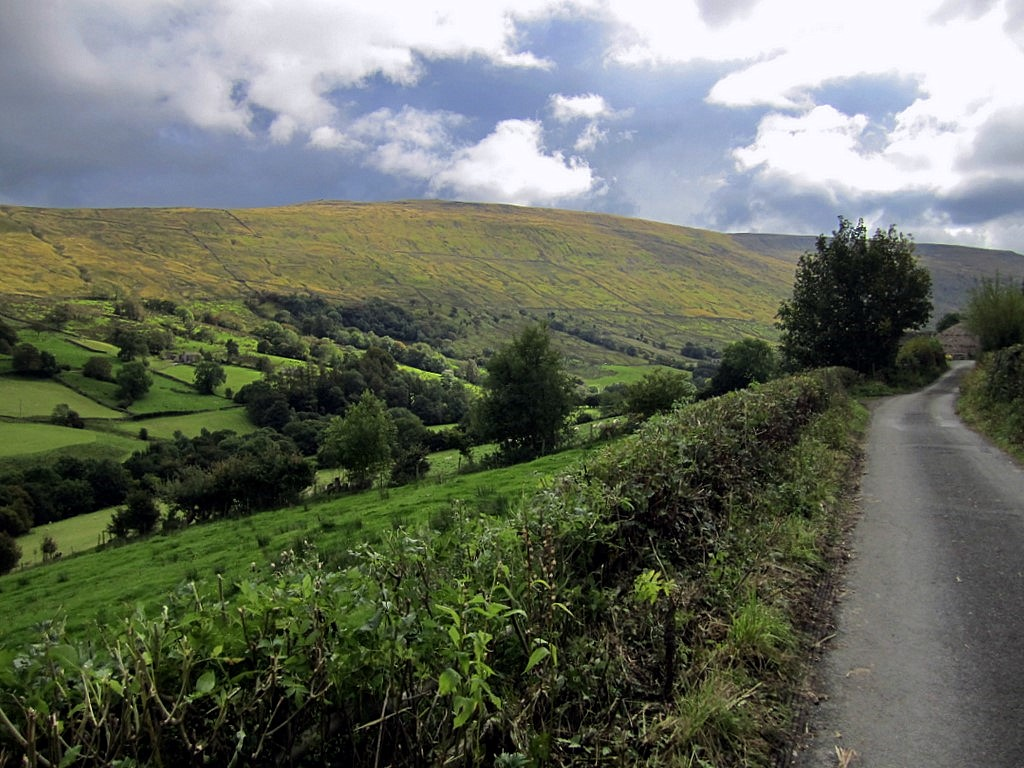 Deepdale Lane near Holly Bush